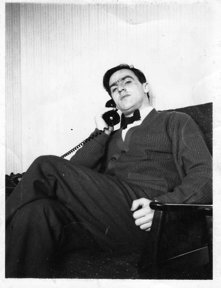 photo of William Patterson, scriptwriter of Jeff Hawke, sci-fi comic strip in Daily Express 1956-1969